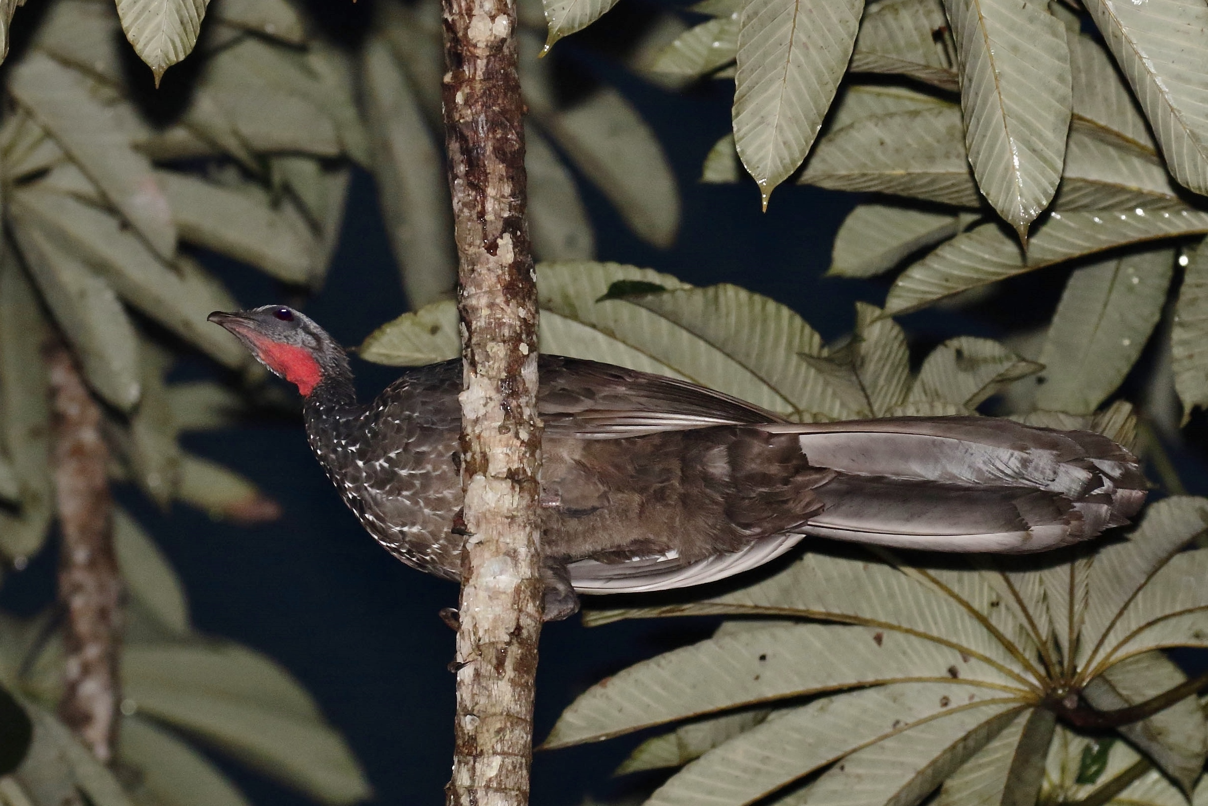 Marail guan at Presidente Figueiredo, Amazonas, Brazil